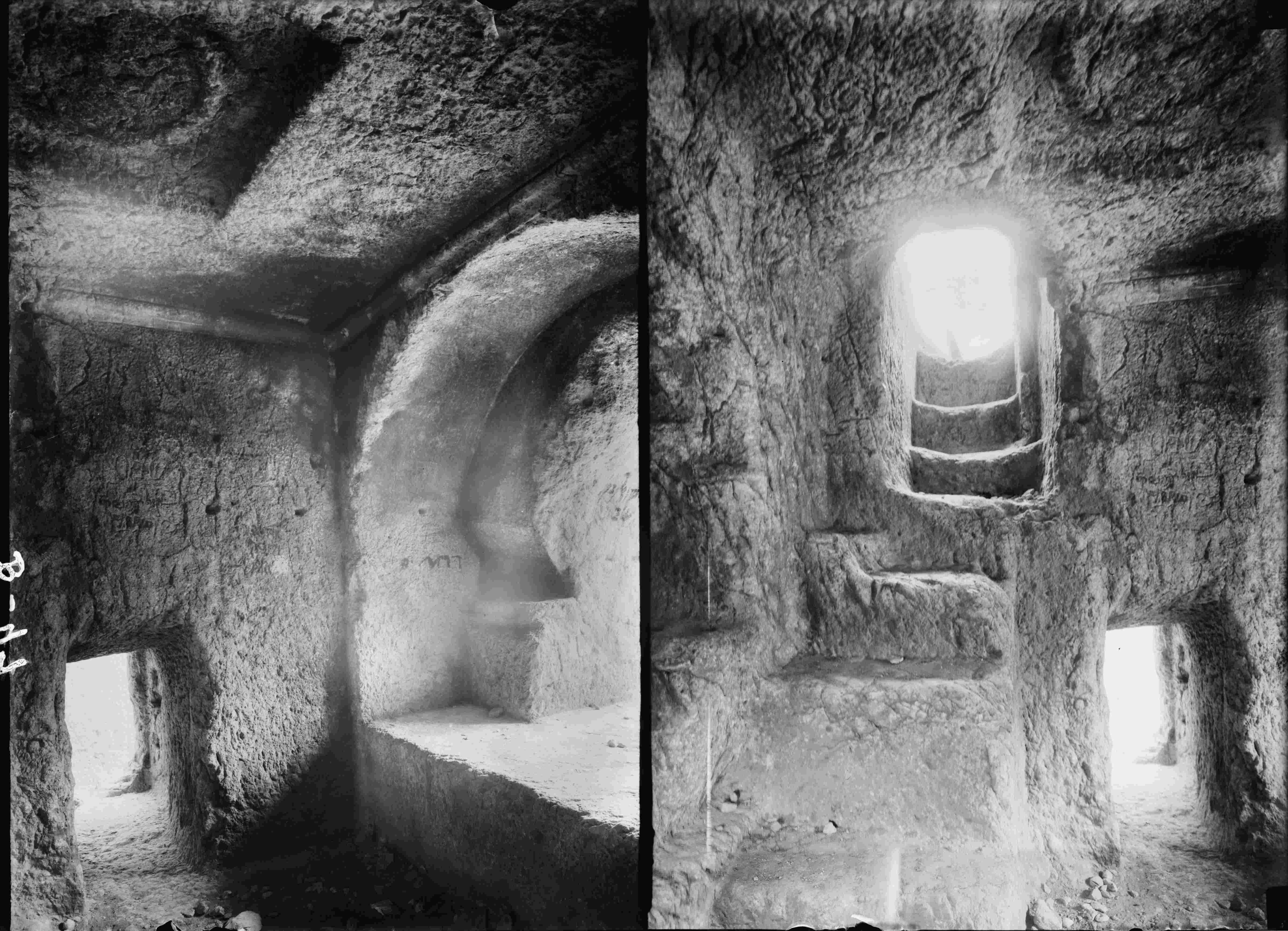 Stairway in Absalom's Pillar; [Another view inside Absalom's Pillar].